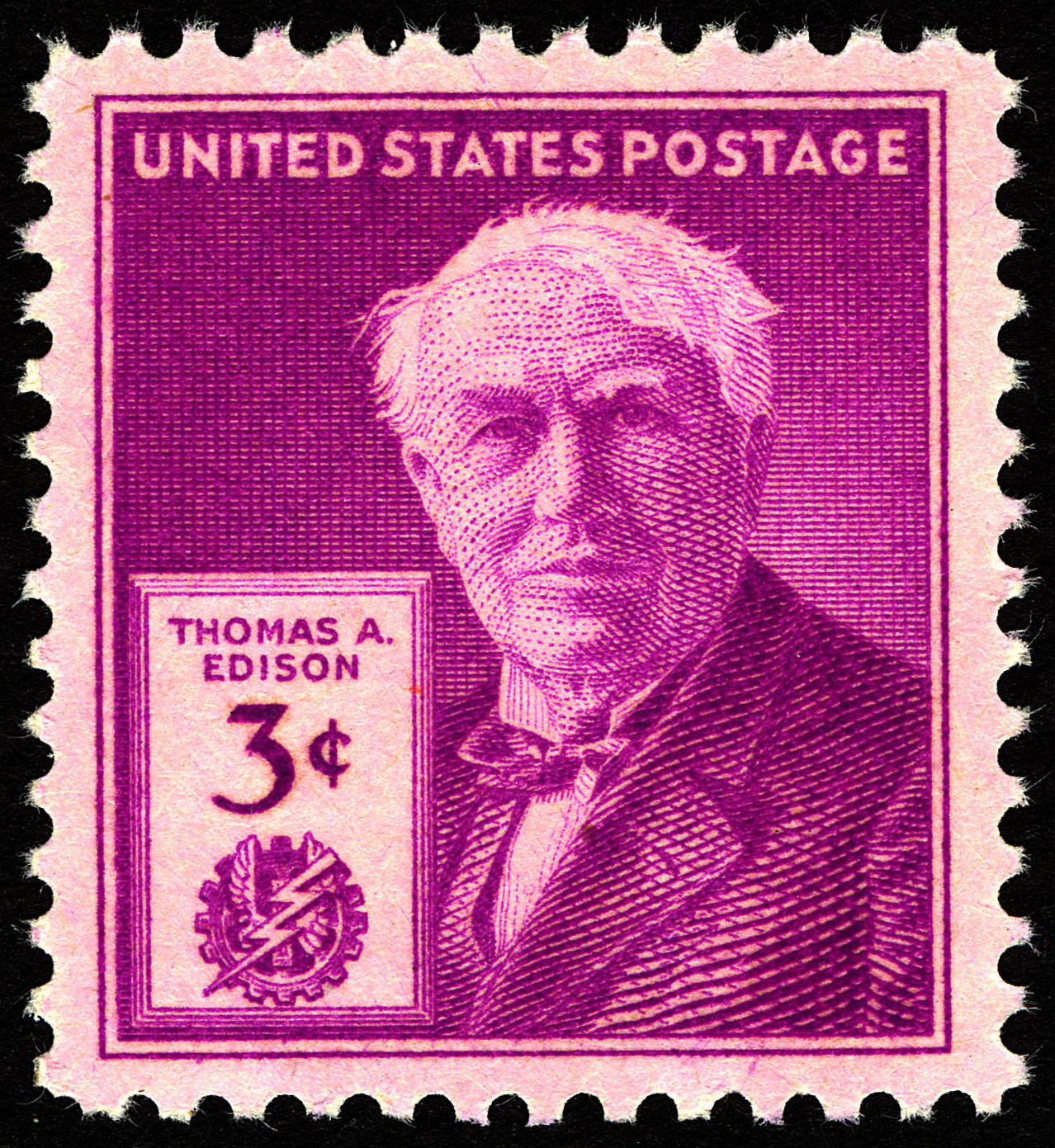 Thomas Edison 3-cent 1947 issue U.S. stamp, released to mark the 100th anniversary of his birth.